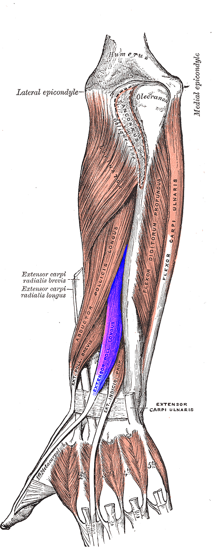 Posterior surface of the forearm. Deep muscles. Extensor pollicis longus muscle is labeled in purple.